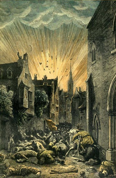 An illustration from Jules Verne's short story "Dr. Ox's Experiment" (1872) drawn by Lorenz Frølich.